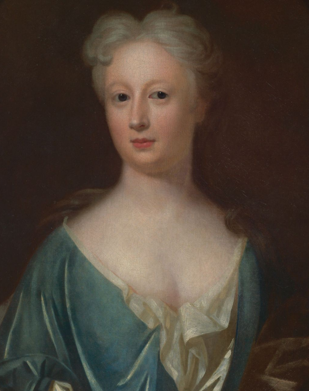 This is a photographic copy in Lane, Margaret (1975), Samuel Johnson & his World, p. 65. New York: Harpers & Row Publishers, ISBN 0060124962. Owned by Mary Hyde and part of the Hyde Collection in Someville, N.J. The original: Description: 1 painting on canvas : oil ; image 74 x 67 cm. Summary: Oval portrait of Elizabeth "Tetty" Porter Johnson, wife of Dr. Samuel Johnson, half-length, in a blue dress trimmed in white. Notes: Title on plaque. Engraved into wood on back of frame: Lucy Porter: wife of Sam Johnson, L.L.D. Said to be the only portrait of Tetty Johnson.